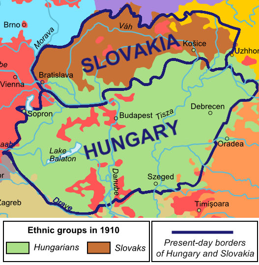 Present day borders superimposed over pre World War I ethnic data.